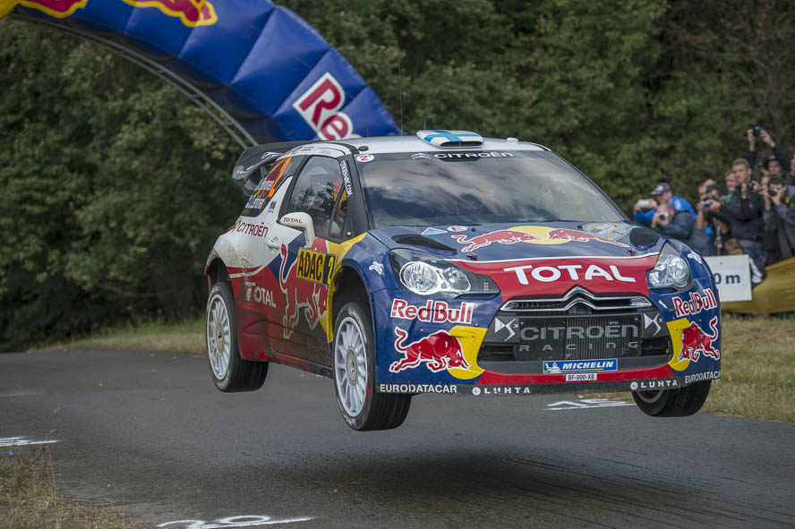 Rally Germany 2012 ADAC Rallye Deutschland,Arena Panzerplatte 1,Citroen DS3 WRC,Citroen Total WRT,Citroen Total World Rally Team,Gina,Jarmo Lehtinen,Mikko Hirvonen,Motorsport,Rally,Rallye,Rallye Deutschland,SS9,WP9,WRC